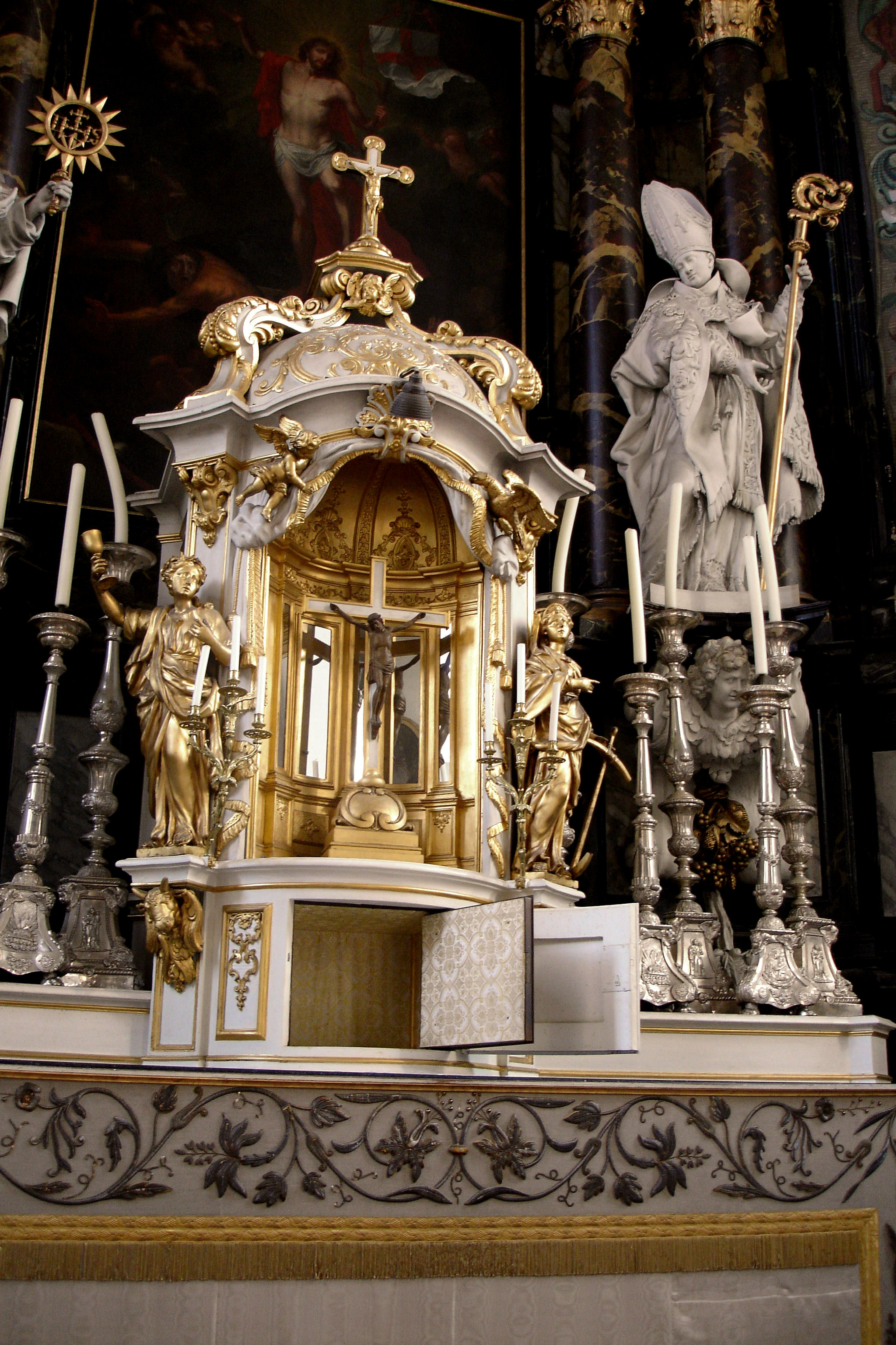 own work